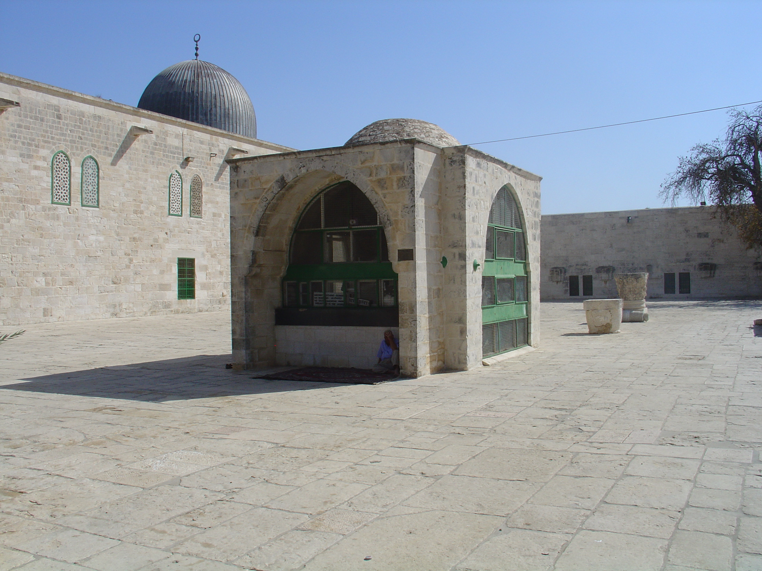 Al-Aqsa Mosque